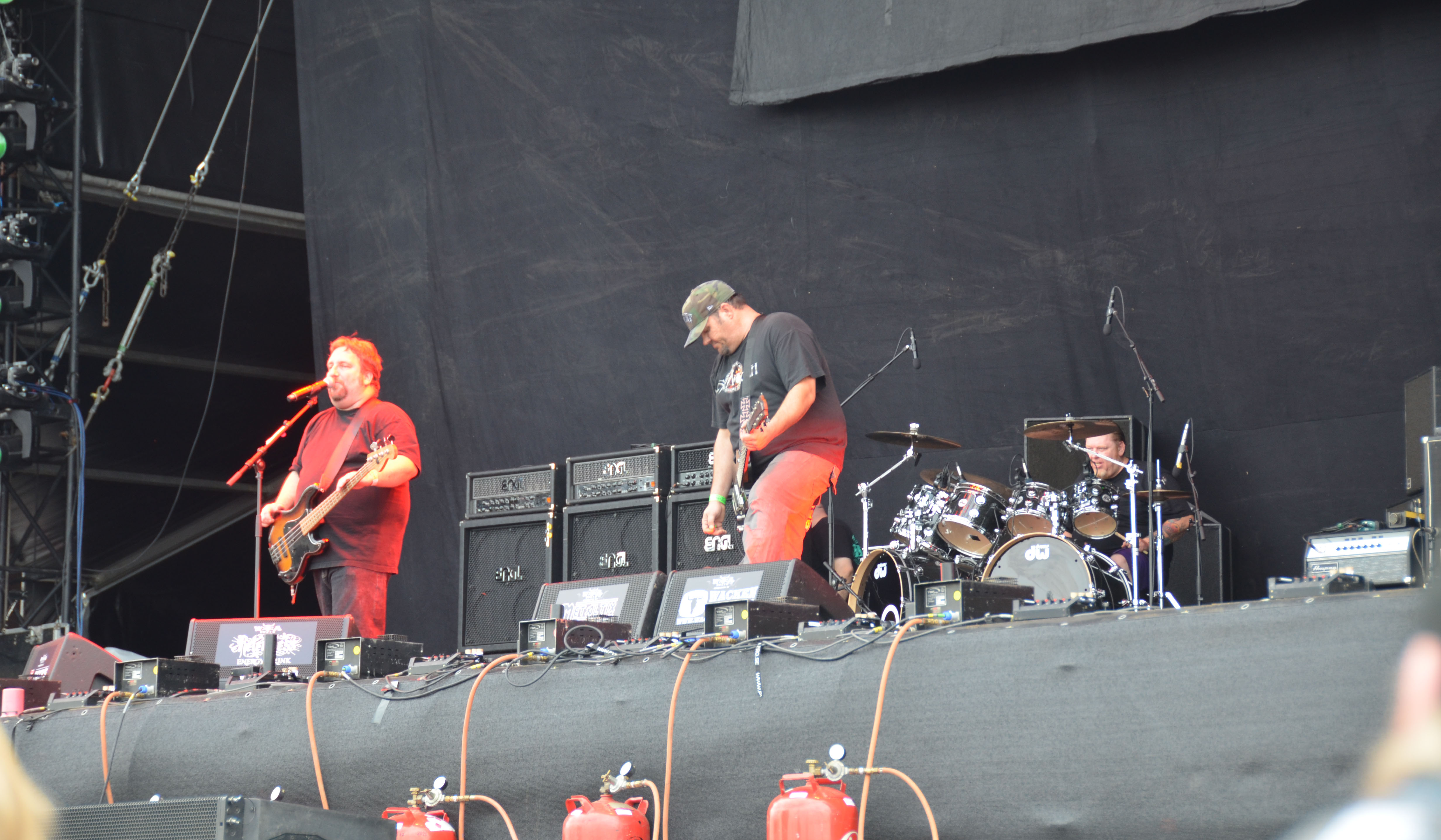 Sacred Reich at Wacken Open Air 2012